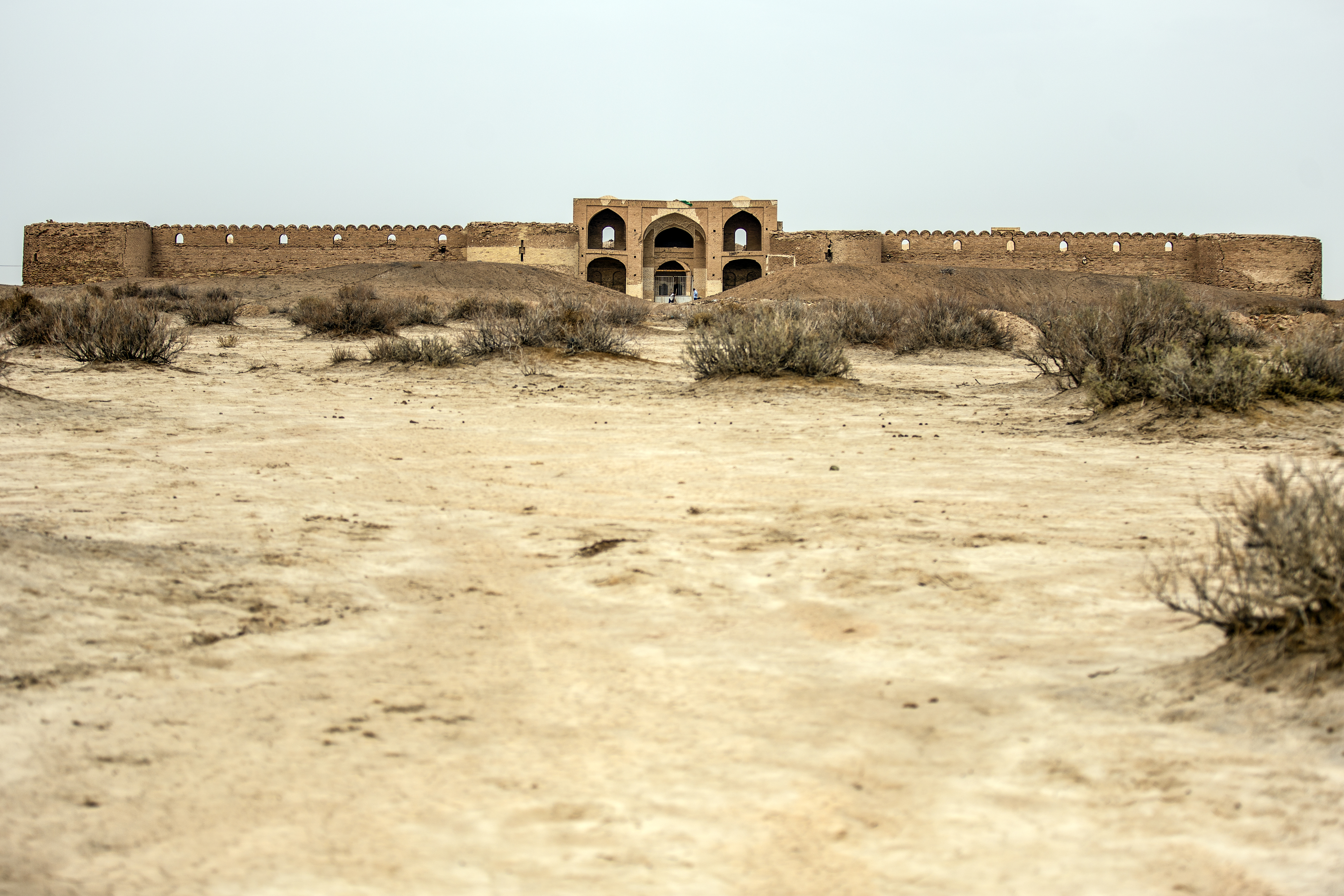 Deir-e Gachin Caravansarai is one of the greatest caravansarais of Iran which is located in the center of Kavir National Park. Its unique qualities is the reason it is called “Mother of Iranian Caravansarais”. It is located in the Central District of Qom County, 80 kilometers north-east of Qom (60 kilometers into Garmsar Freeway) and 35 kilometers south-west of Varamin. This monument was registered in Iran's National Heritage List on September 23, 2003. The structure of this caravanserai belongs to Sasanian era, and restorations took place in Seljuk, Safavid and Qajar eras. Its current form belongs to Safavid era. This caravanserai is situated on the ancient rout from Ray to Isfahan. The structure of this caravansarai is in Seljuki four-iwan form and is 12000 square meters wide. The interior spaces of the caravansarai include human, livestock, service and convenience, and security spaces. There are four circular towers at the corners and two half-oval towers at both sides of the main gate which is situated in the middle of the southern wall. Also, there are 44 rooms or chambers, 4 big halls (stables), mosque, private shabestan, fodder barn, gristmill, bathroom and toilet. The materials used in Deir-e Gachin are brick, lime, adobe and plaster. The mosque of the caravanserai was probably built in the place of the Sasanian fire temple and there are no decorations in it. There are a number of structures around the caravanserai as a collection including two Ab anbars behind the western side and close to the bathroom, a brick furnace, a dam, and a graveyard in the south-western side in which the graves are covered with bricks and that goes back to the Islamic era. There is a brick-clay-made structure in the form of a fort 500 meters east of the caravanserai which has only one entrance gate and its structure goes back to the Qajar era.